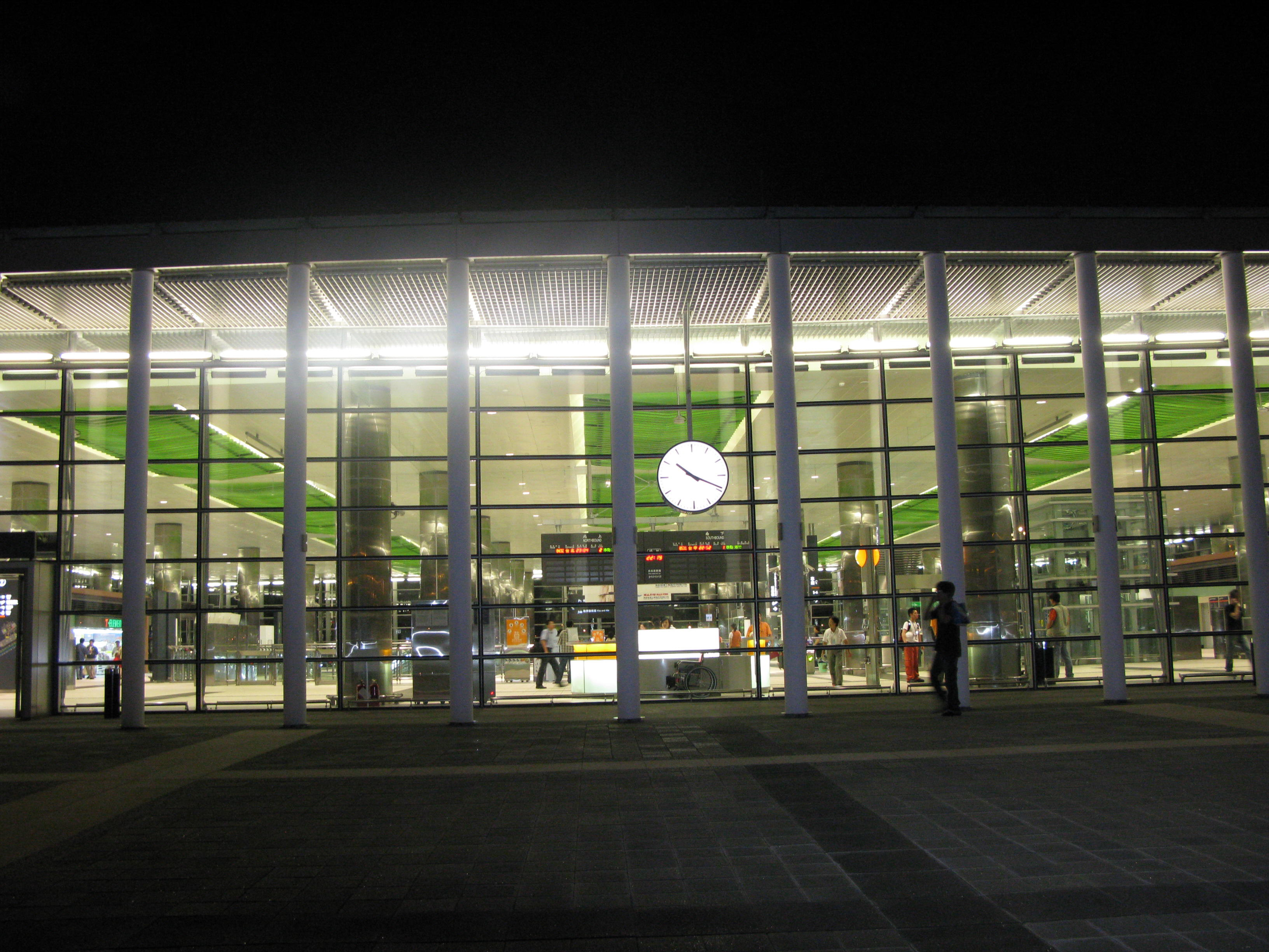 THSR-Taoyuan Station-2, Taiwan.